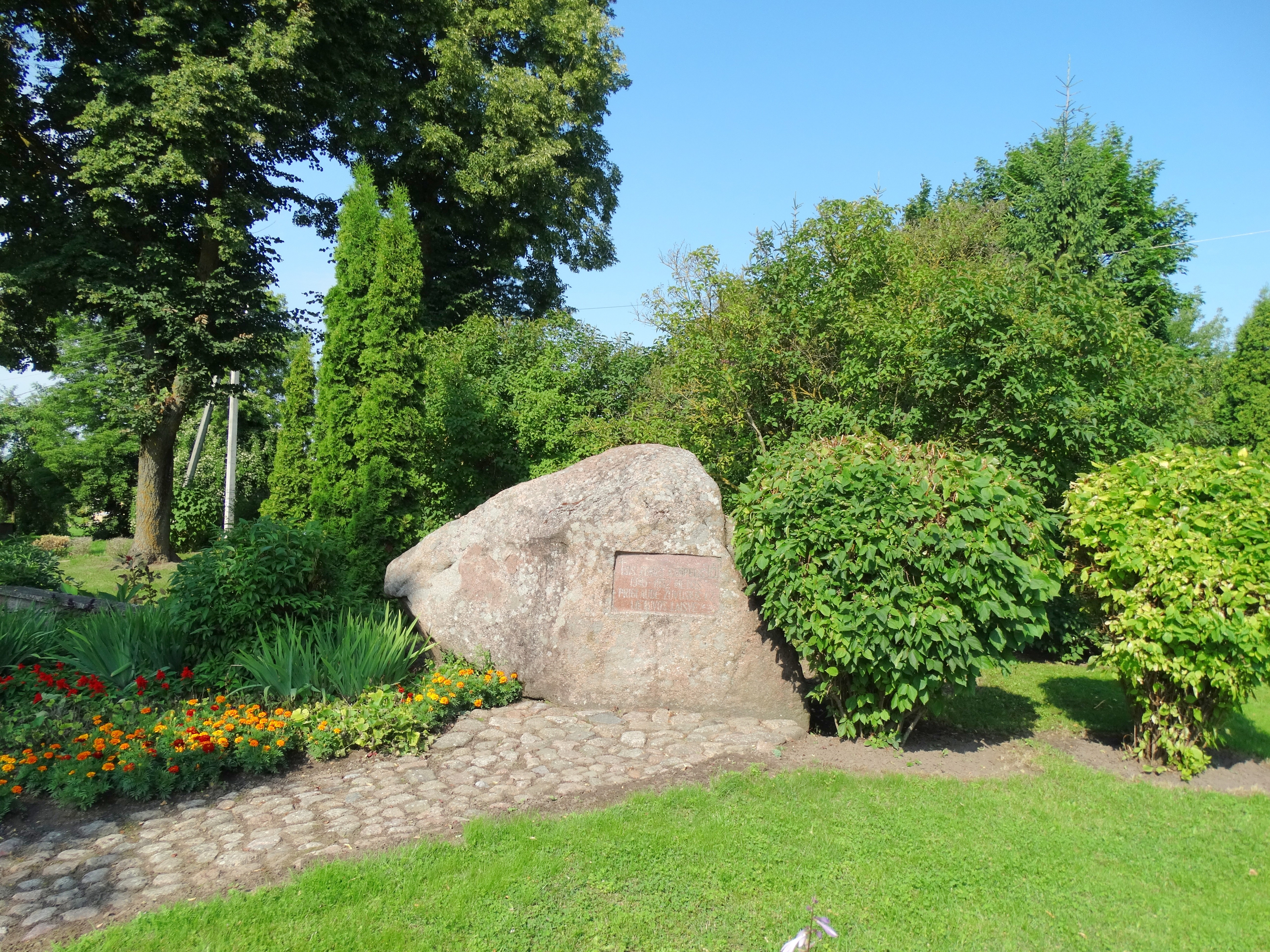 Inscribed stone, Pašvitinys, Pakruojis District, Lithuania